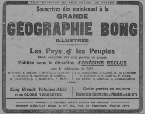 Grande Géographie Bong illustrée... Onésime Reclus, advertisement published in Le Journal, Paris, 21 janvier 1911.